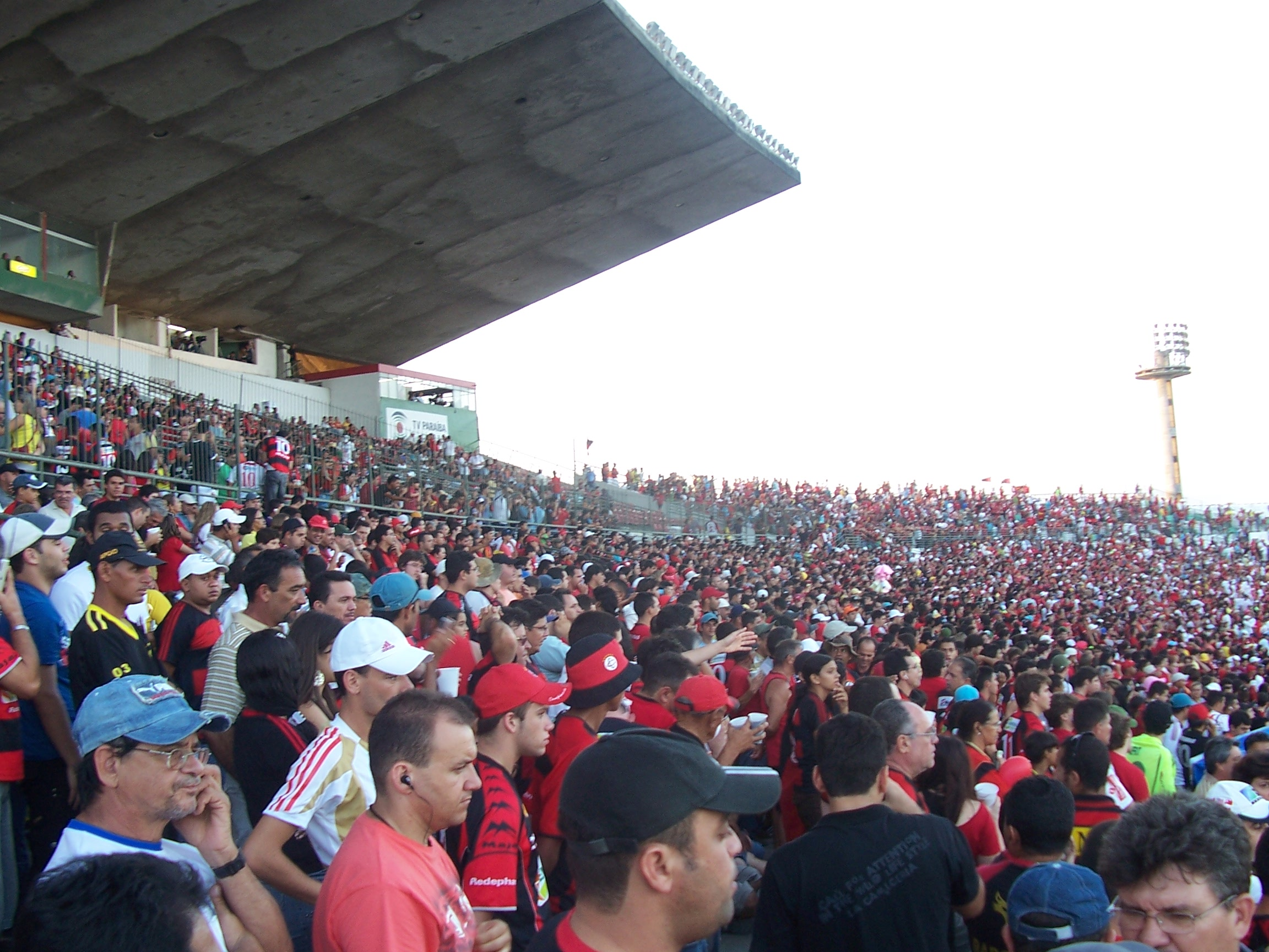 Campinense's Fans